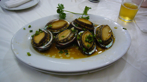 Cantonese cuisine abalone with shellCantonese cuisine abalone with shell